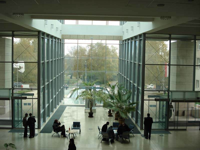 Main Entrance, inner side, University of Miskolc, Hungary